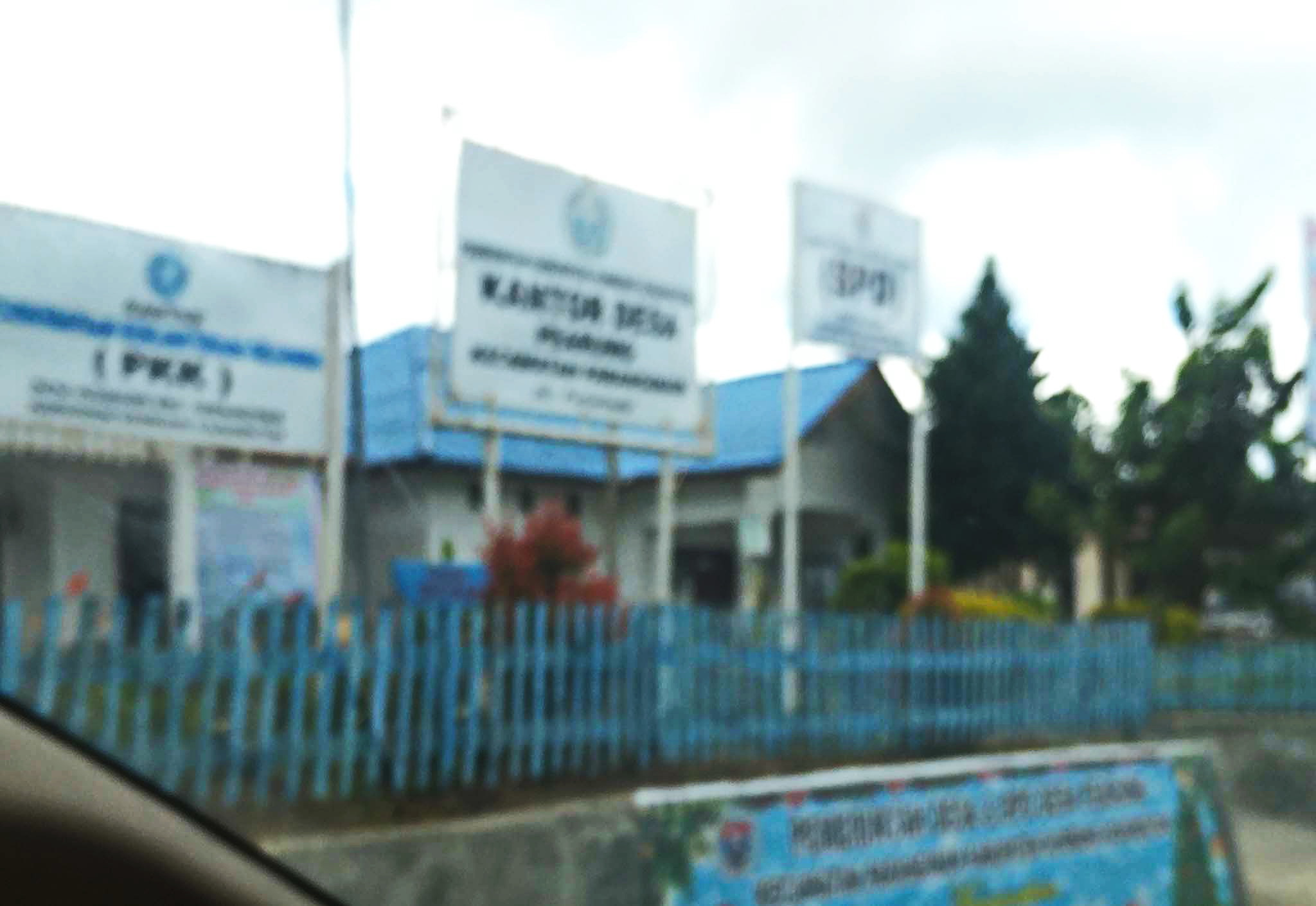 Office of Paranginan Selatan, Paranginan, Humbang Hasundutan